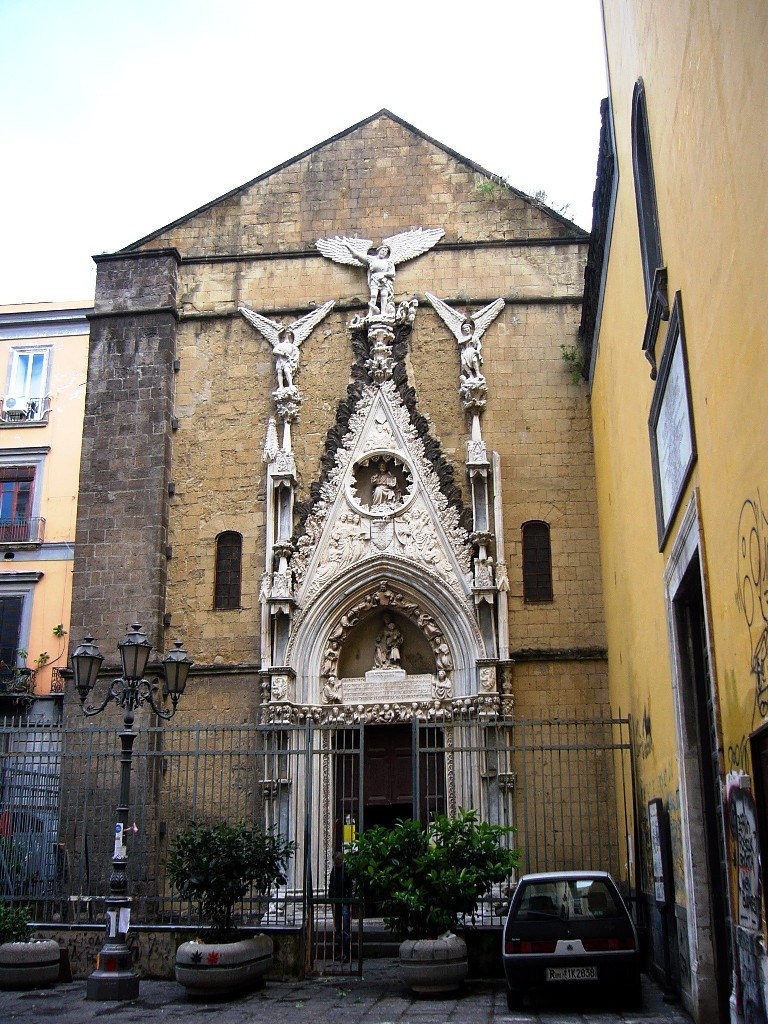 Facade of Cappella Pappacoda, Naples, Italy.